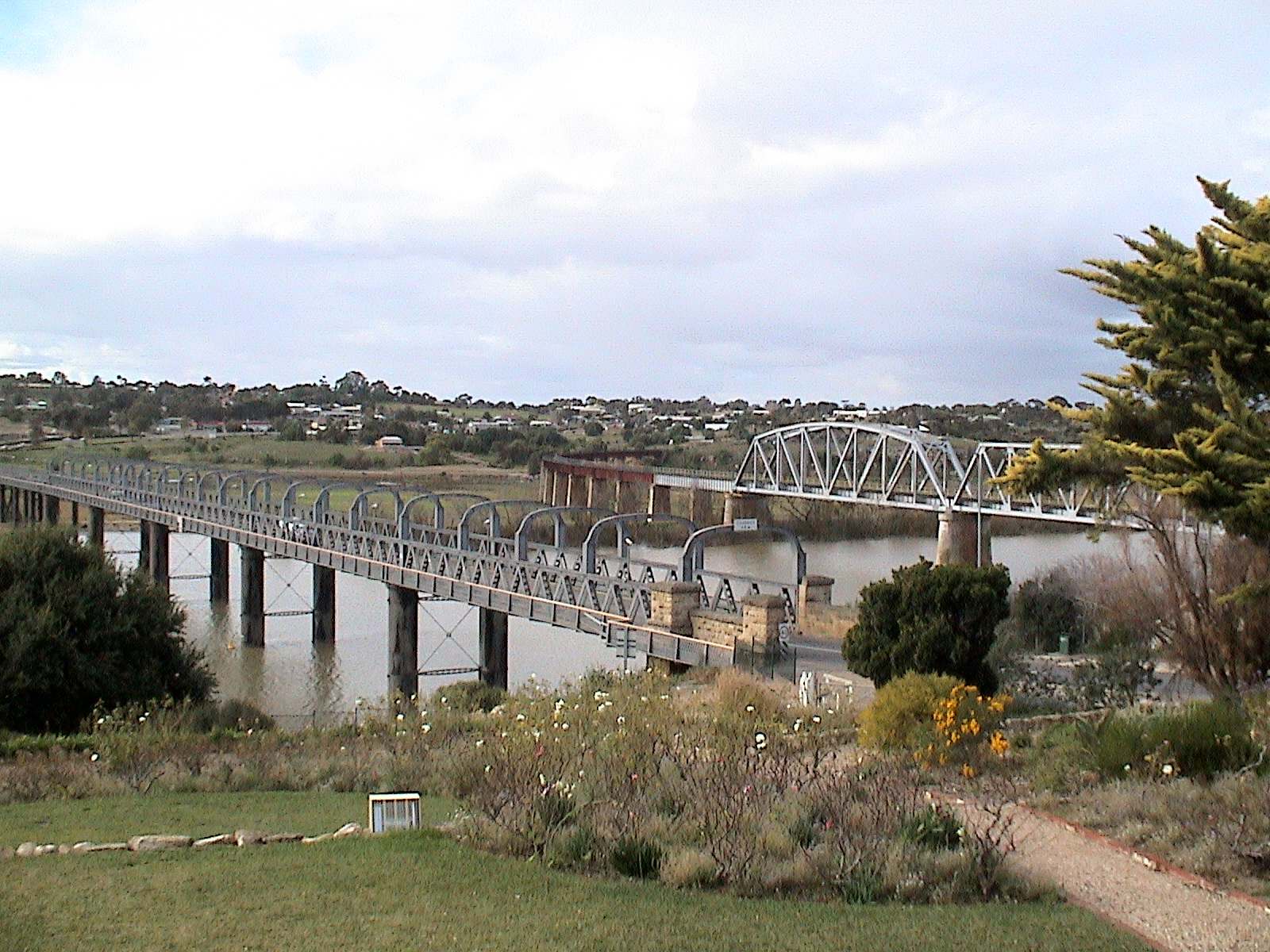 Murray Bridge road (left, 1879) and rail (right, 1924) bridges over the Murray River, South Australia; view from the Roundhouse verandah